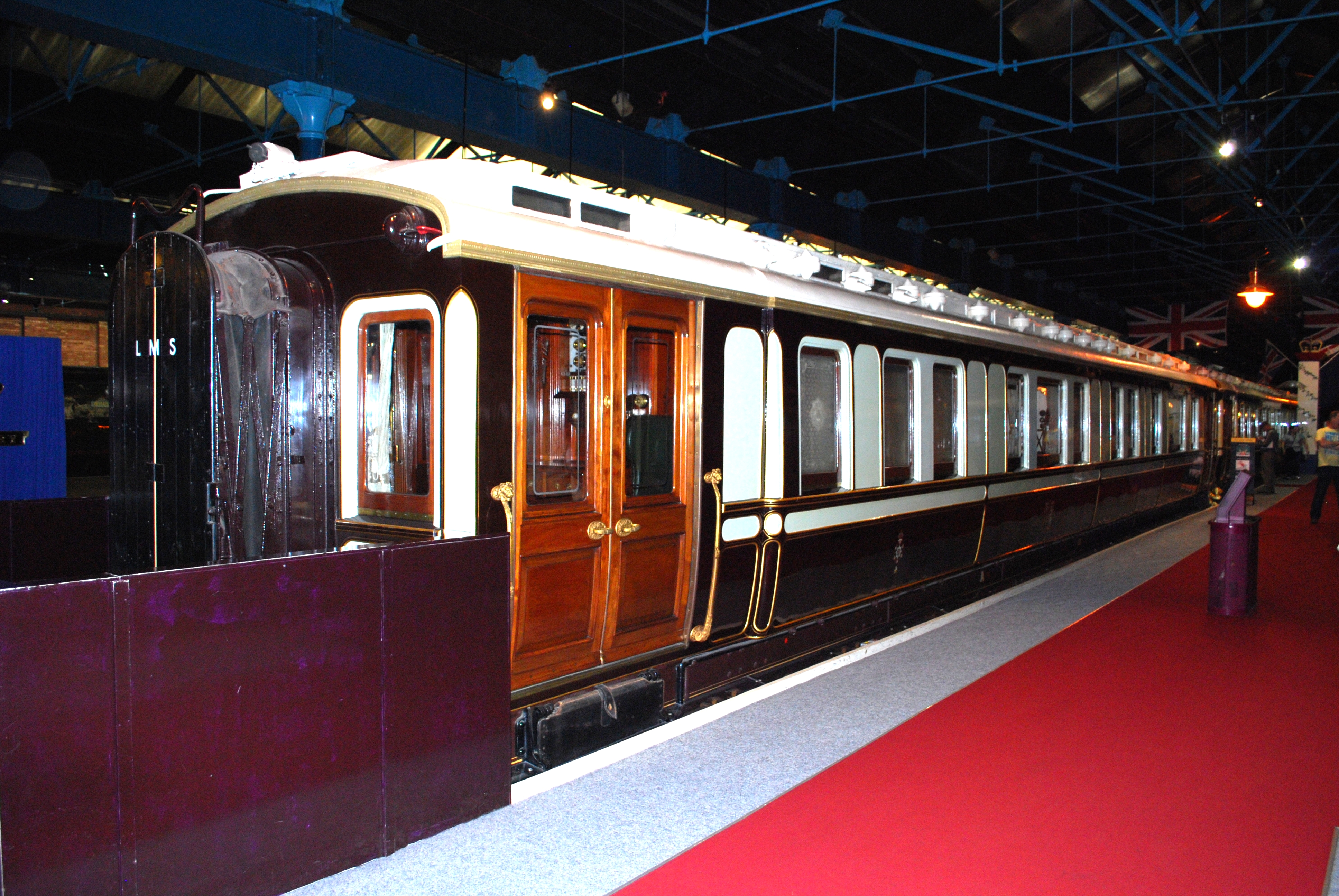 LNWR King Edward VII's 65'6" Saloon (LMS No.800) in LNWR plum & spilt milk livery; designed by C A Park of the LNWR and built at Wolverton, 1903. The LNWR did not number it's Royal coaches. At the National Railway Museum York, 09/10.